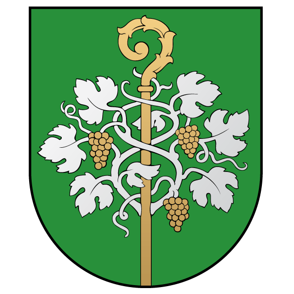 Coat of arms of Alsėdžiai. Redraw